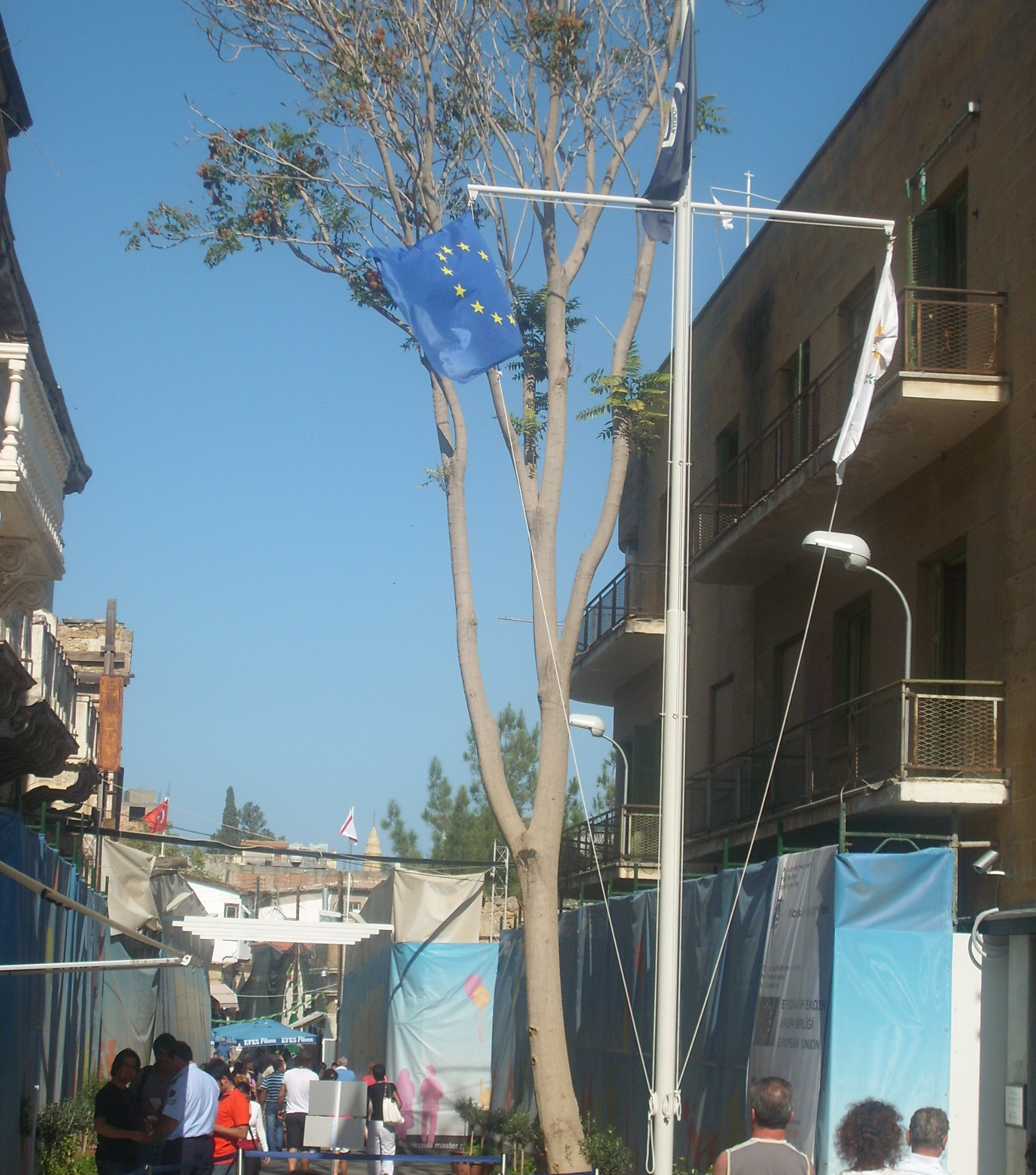 Control point at Ledra Street in Nicosia. In front the flag of the EU and the Republic of Cyprus. In the background the flag of Turkey and the TRNC